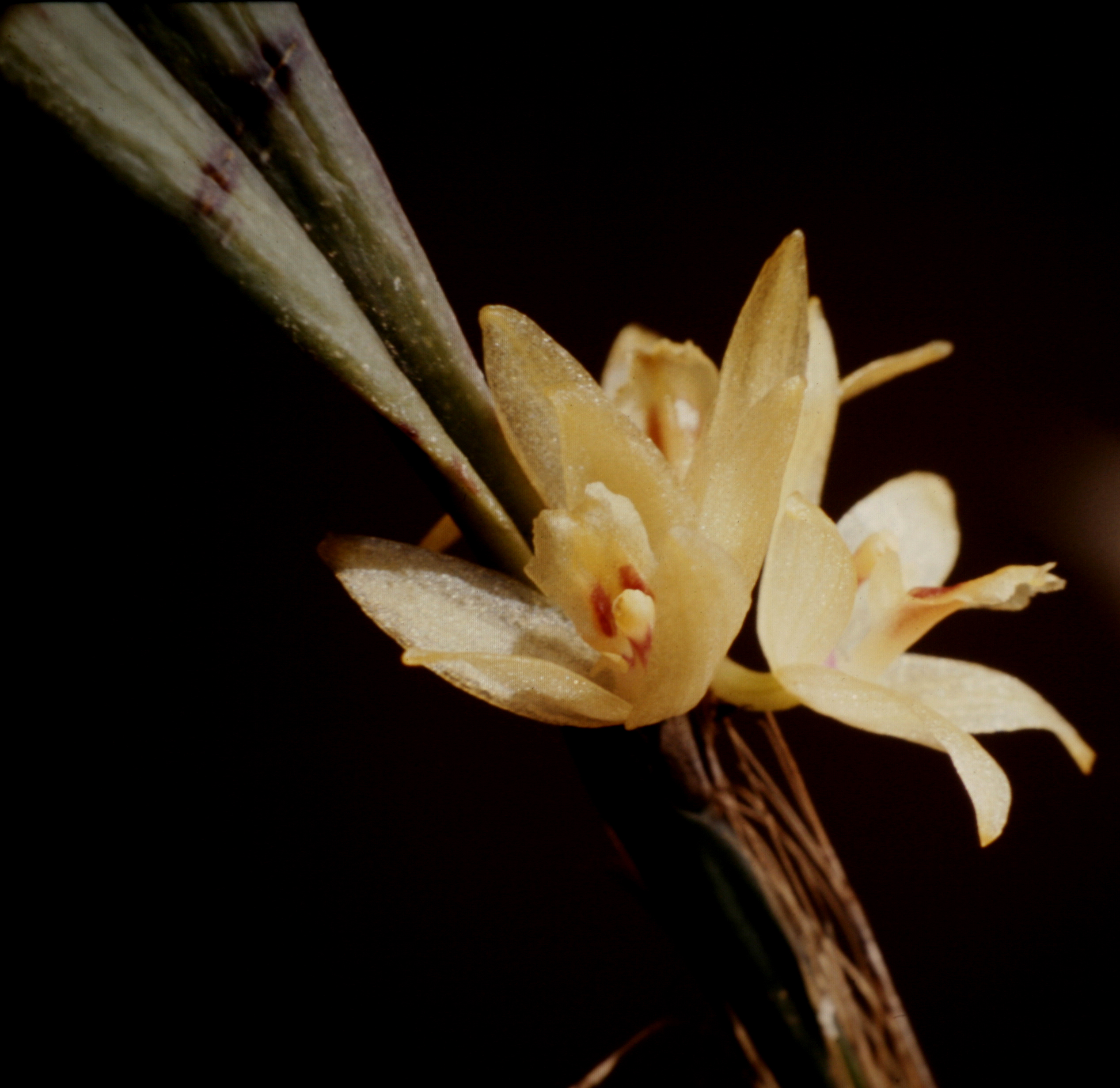 Octomeria grandiflora. Found in Suriname, 1972-1982.